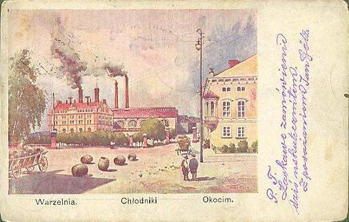 Post card with Okocim brewery from beginning of 1900